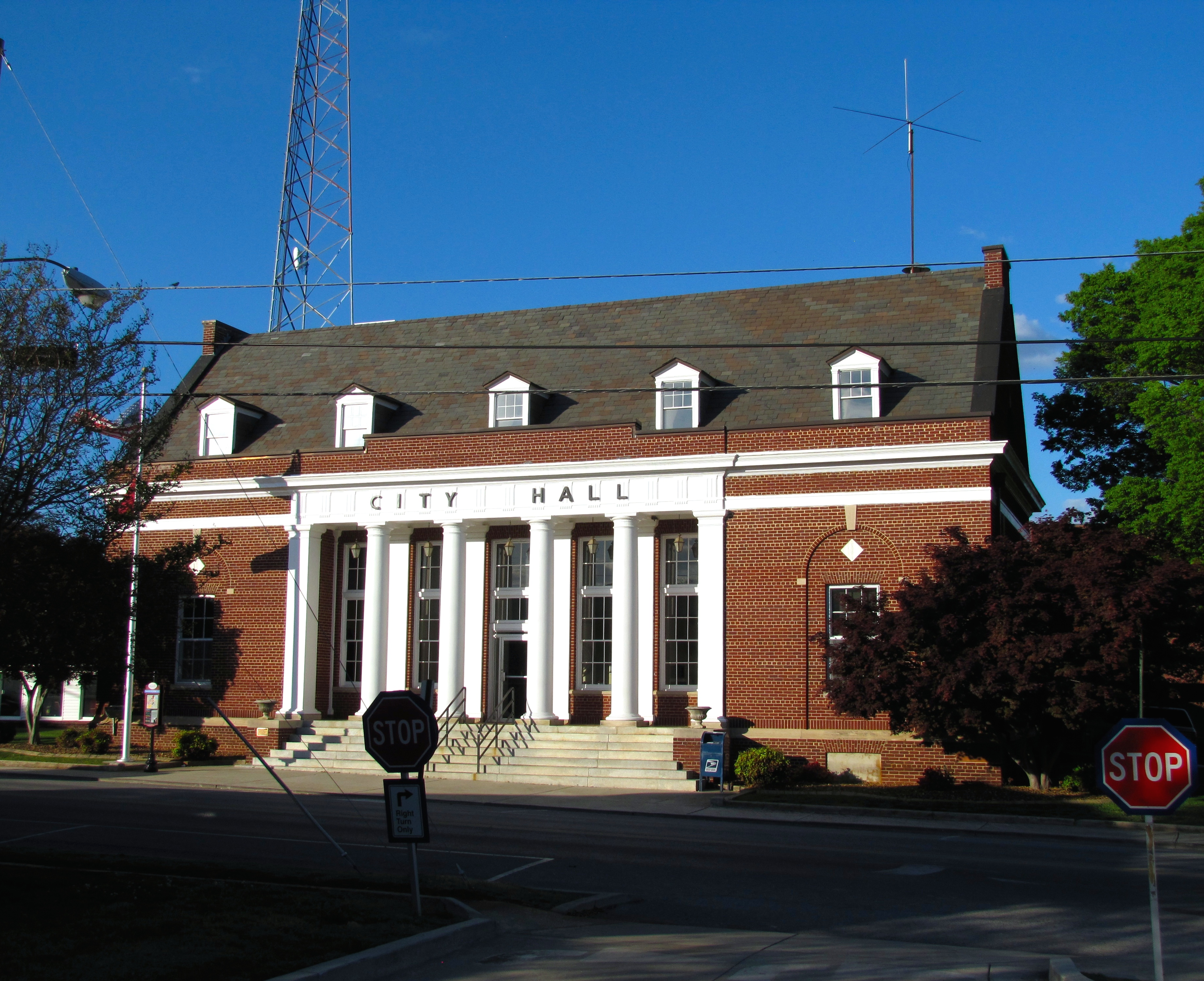 City Hall in Winchester, Tennessee, United States.